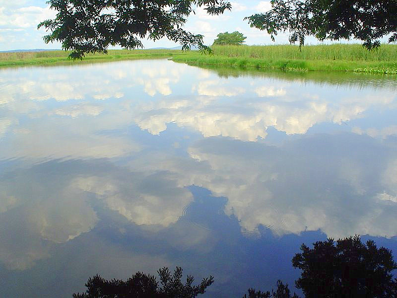 This is the Mbutuy River in the Veinticinco de Diciembre city